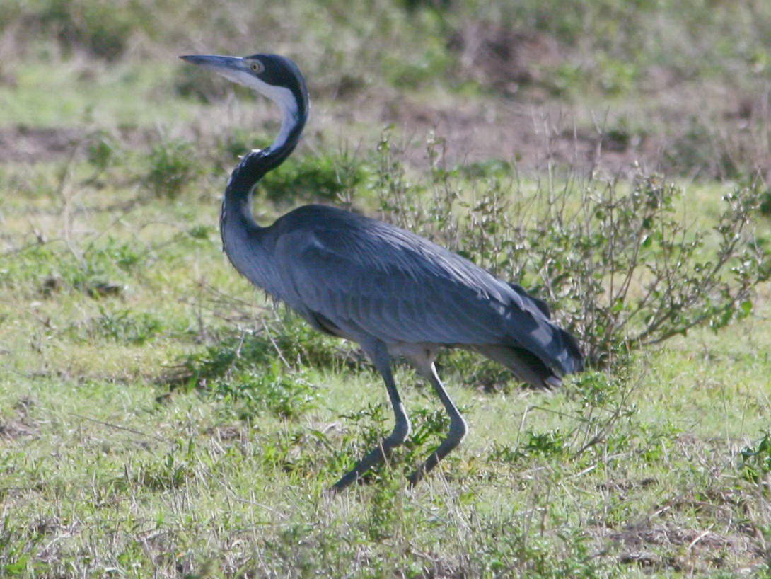 Black-headed Heron (Ardea melanocephala) in Tanzania